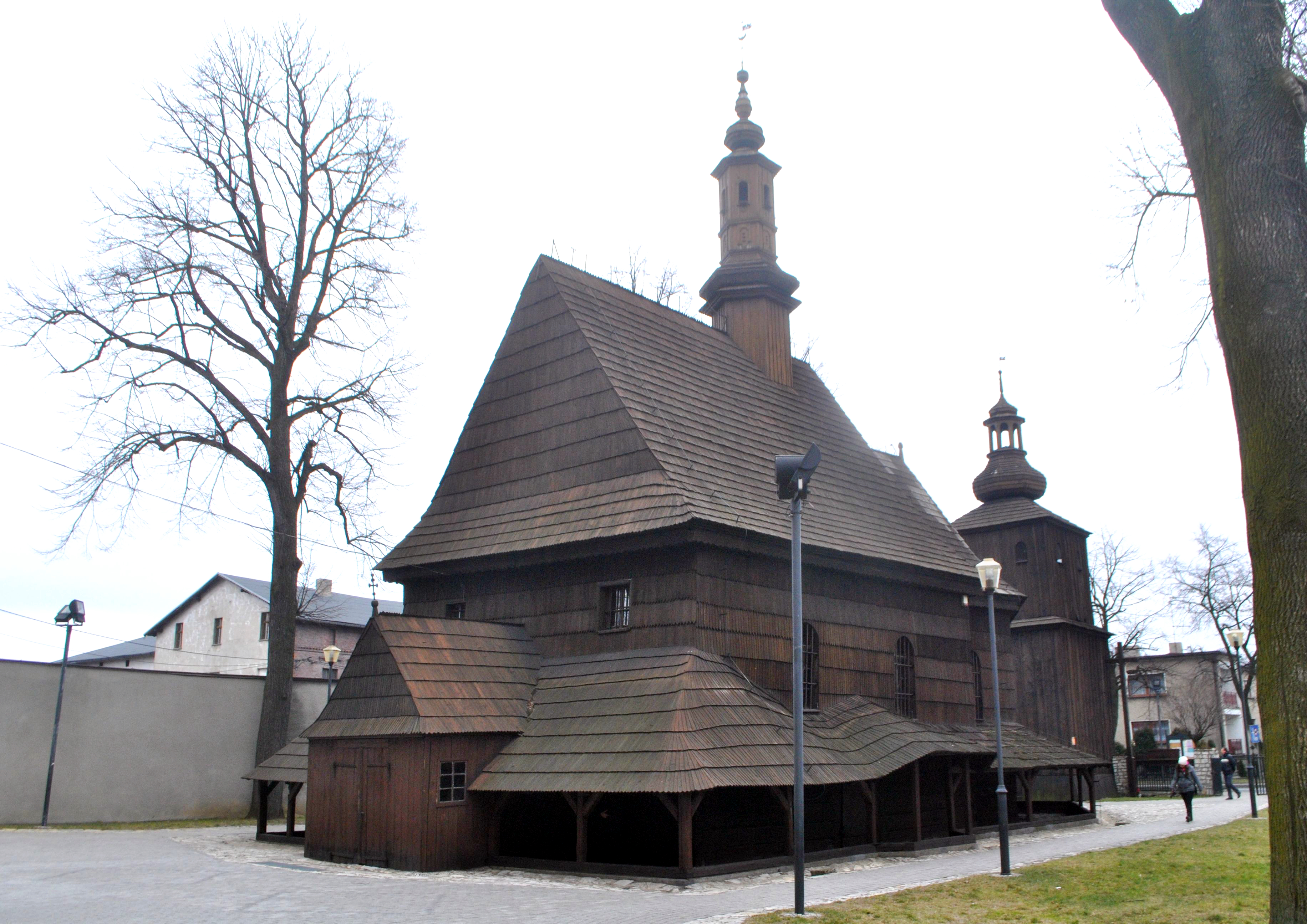 Saint George church in Miasteczko Śląskie